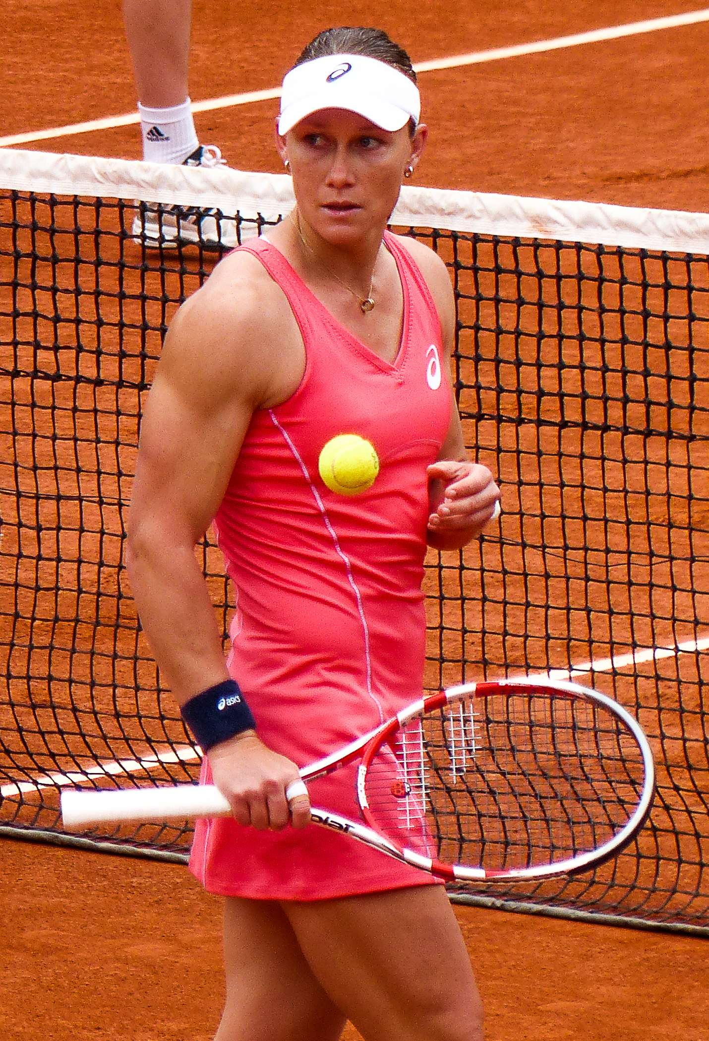 Samantha Stosur at Roland Garros 2013